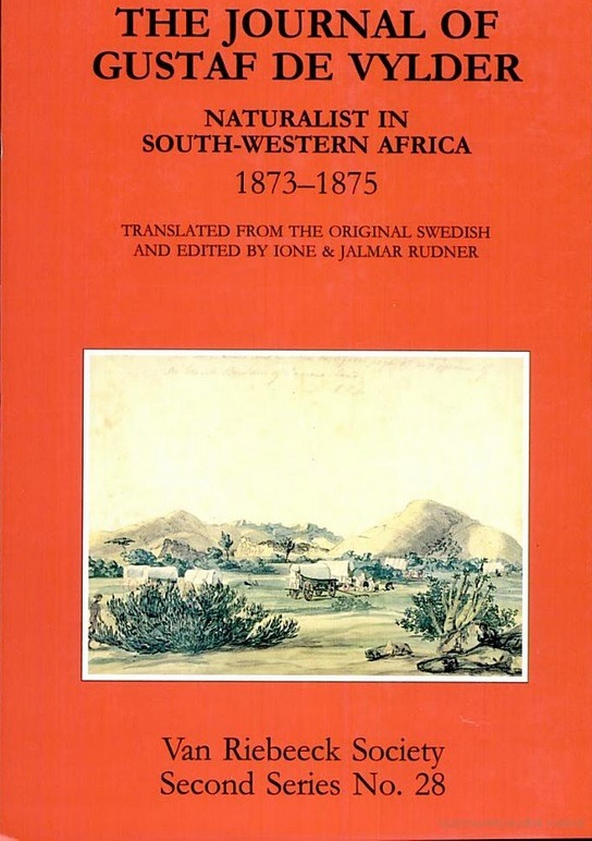 The journal of Gustaf de Vylder: naturalist in South-Western Africa 1873-1875 / Gustaf de Vylder; translated from the original Swedish and edited by Ione & Jalmar Rudner. Cape town: Van Riebeeck Society, 1997[1998].